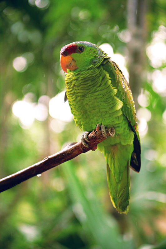 Lilac-crowned Amazon at Xcaret Eco Park, Riviera Maya, Mexico. Photograph taken as it started to rain.